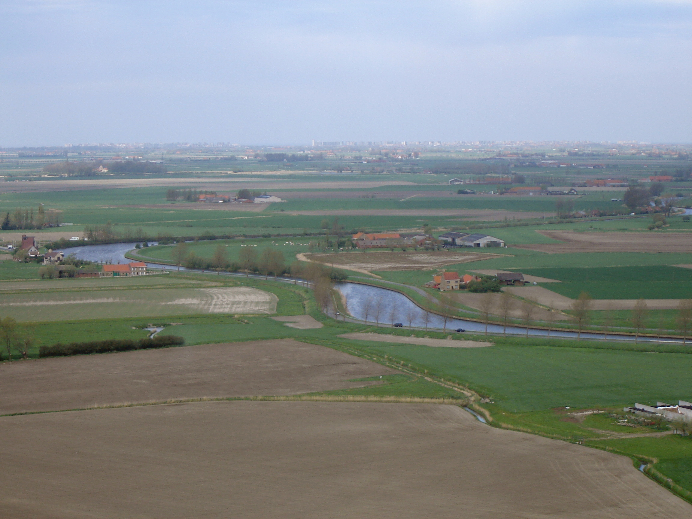 View on the West Flemish polders, seen from the IJzertoren tower in Diksmuide. In the middle the river IJzer (Yser). On the horizon the high-rise buildings along the Belgian coastline.